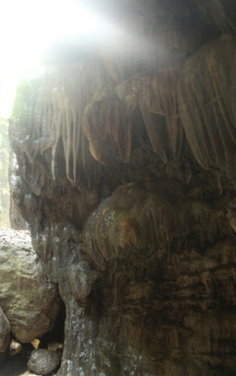 Stalactites adorned the Magsuhot cave